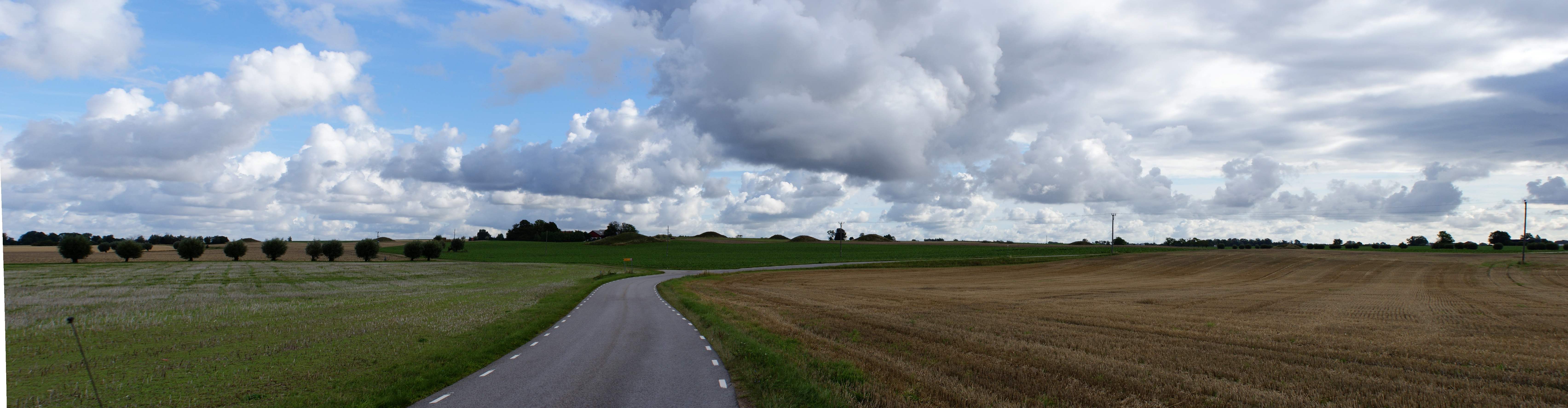 Several bronze age burial mounds in Scania, Sweden